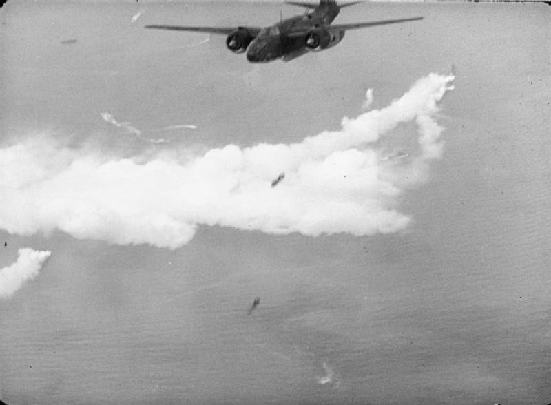 The Dieppe Raid, 19 August 1942 Bombs being released from a Douglas Boston bomber over the target area.